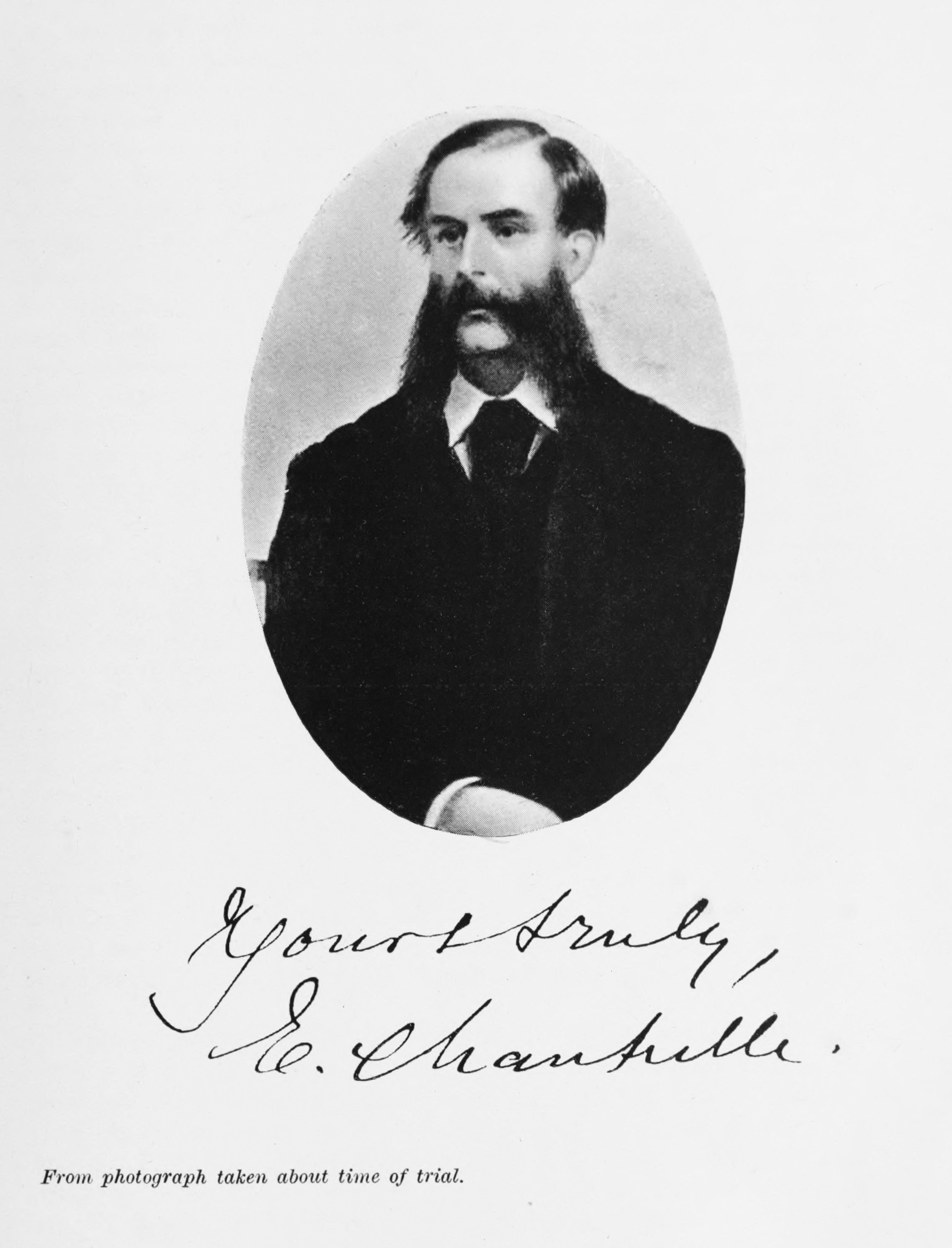 Portrait of Eugene Chantrelle (1834-1878). Photograph taken about time of trial